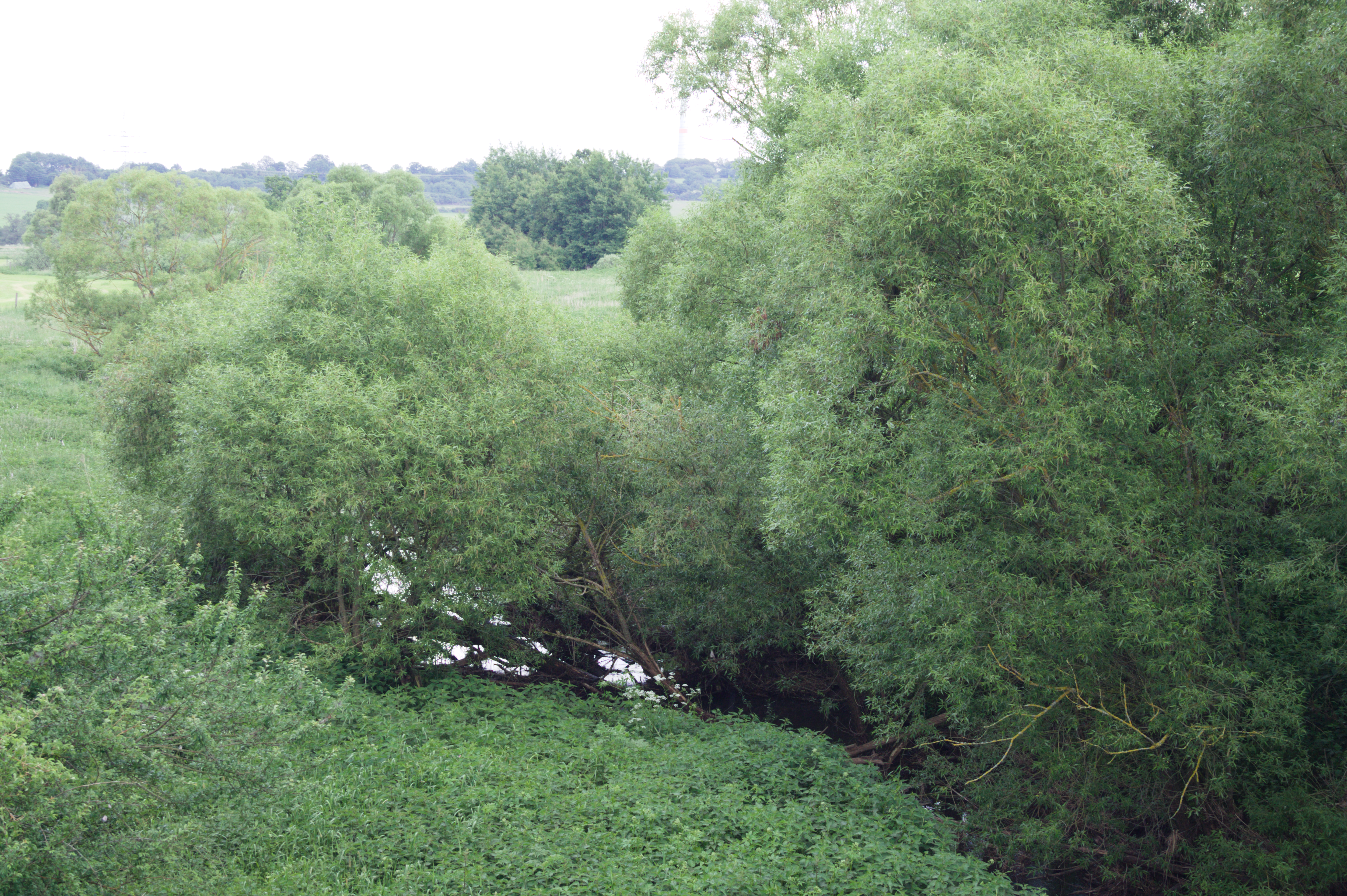 Site of Community Importance "Talauen bei Herbstein" between Rixfeld and Herbstein, Herbstein, Hesse, Germany